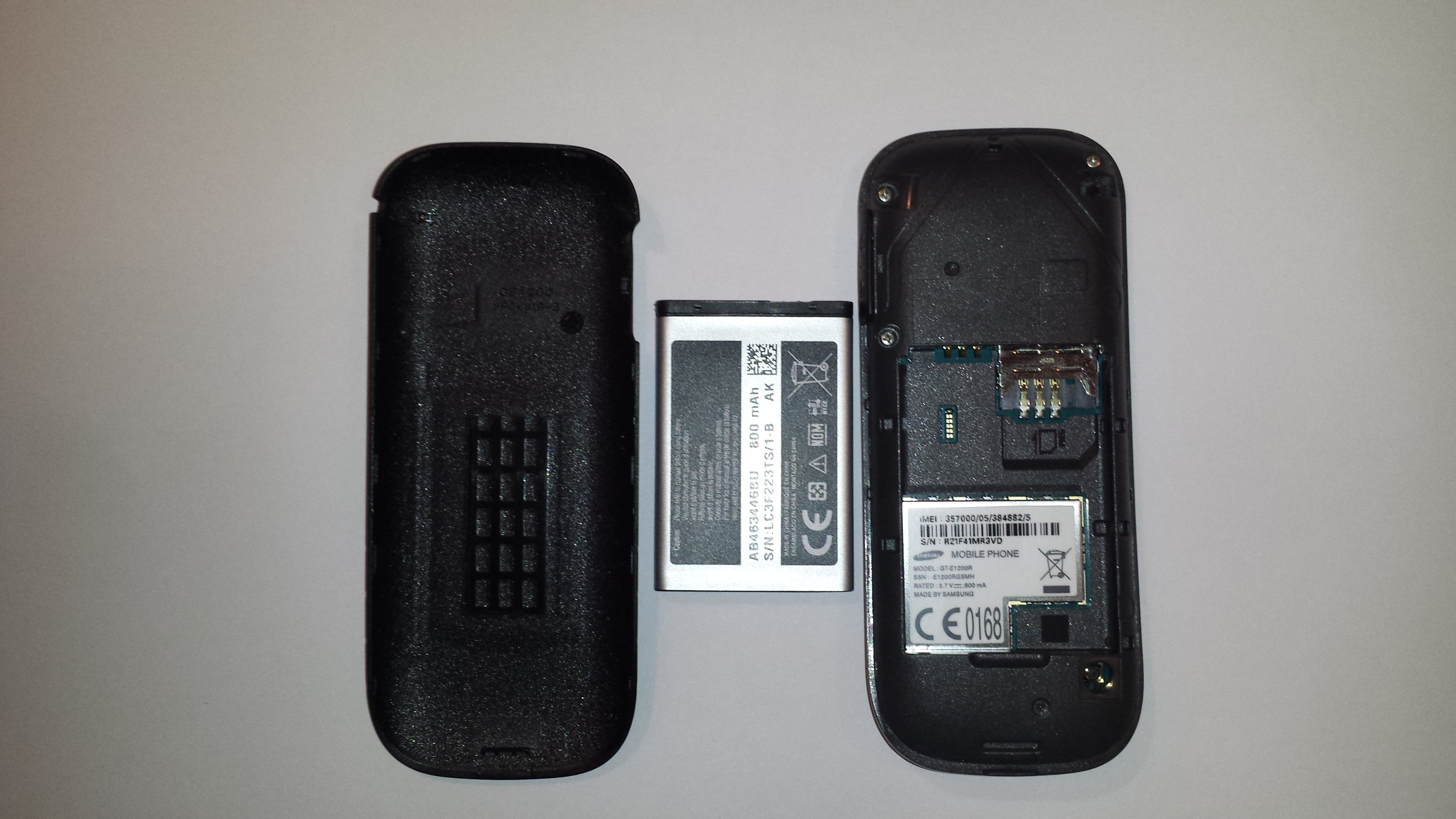 E1200R backplate, battery and insides